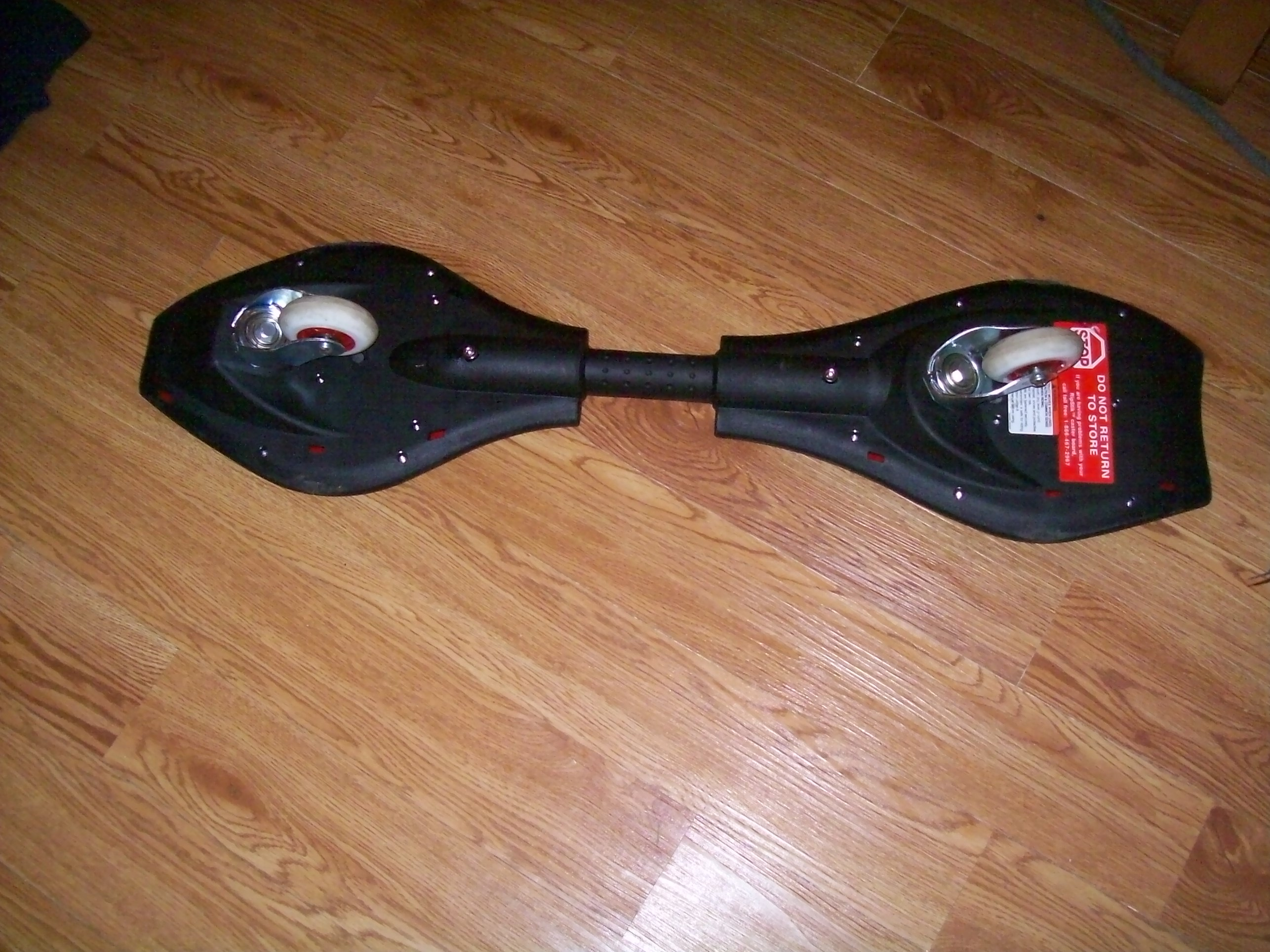 Ripstik coaster board